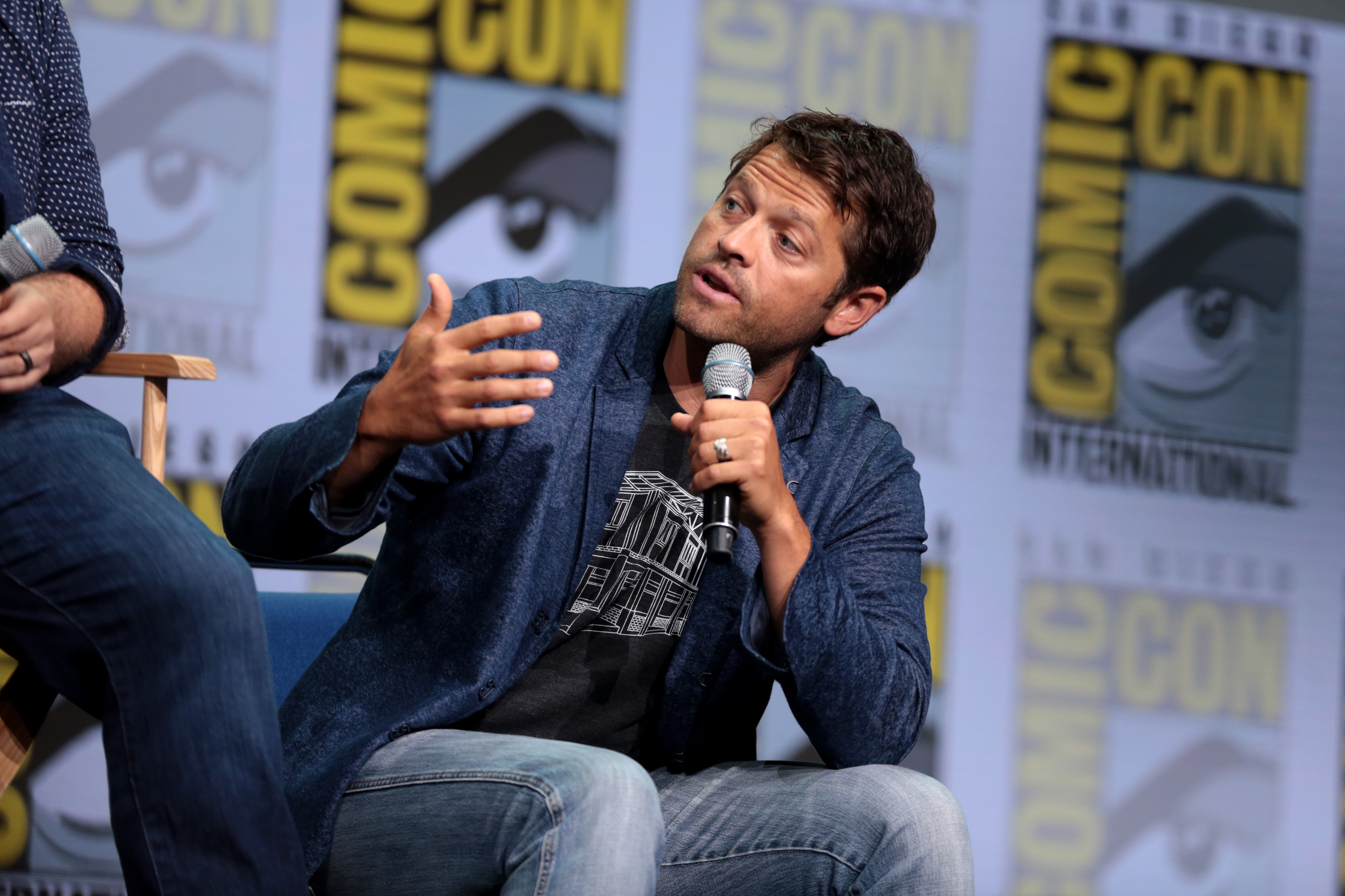 Misha Collins speaking at the 2017 San Diego Comic Con International, for "Supernatural", at the San Diego Convention Center in San Diego, California.